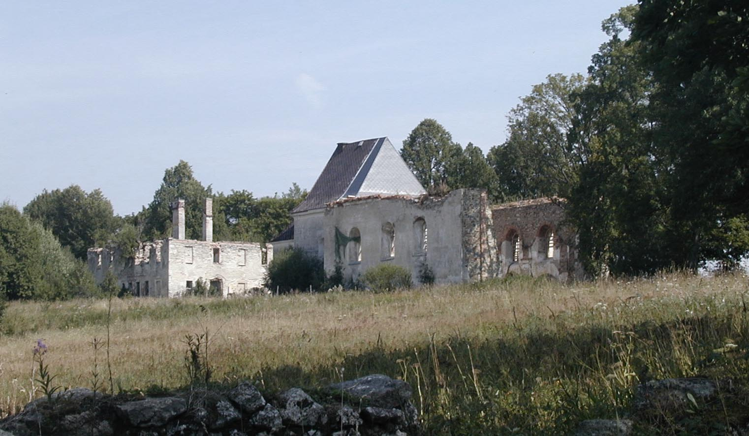 Church in Pohoří na Šumavě